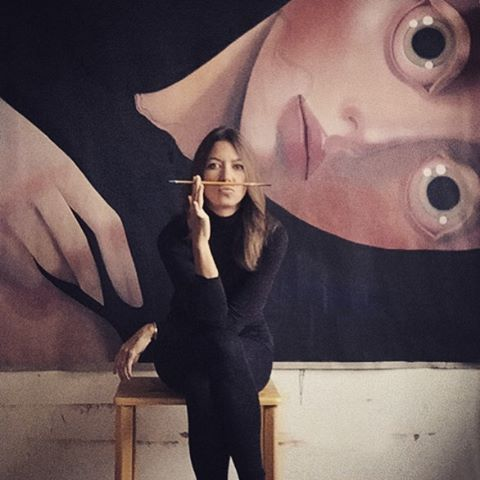 Dominican swedish american artist Tania Marmolejo and her work ‘The Light Suggestion’ (50 x 66 inches, oil on linen), 2015.